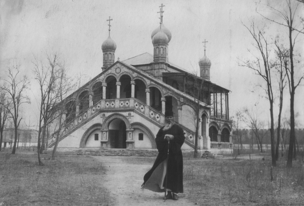 Chinese New Martyrs church in Bejing.